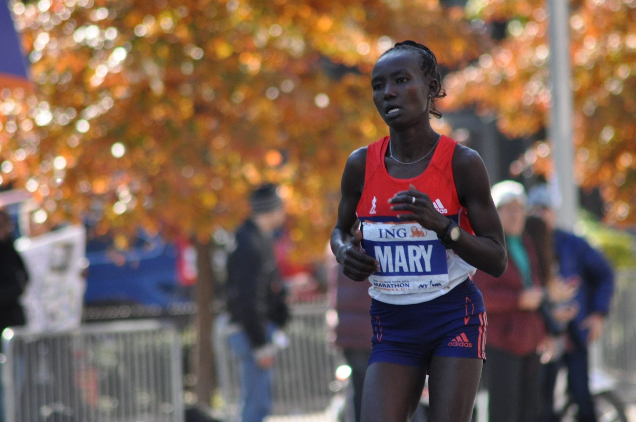 Mary Keitany at 2011 nyc marathon